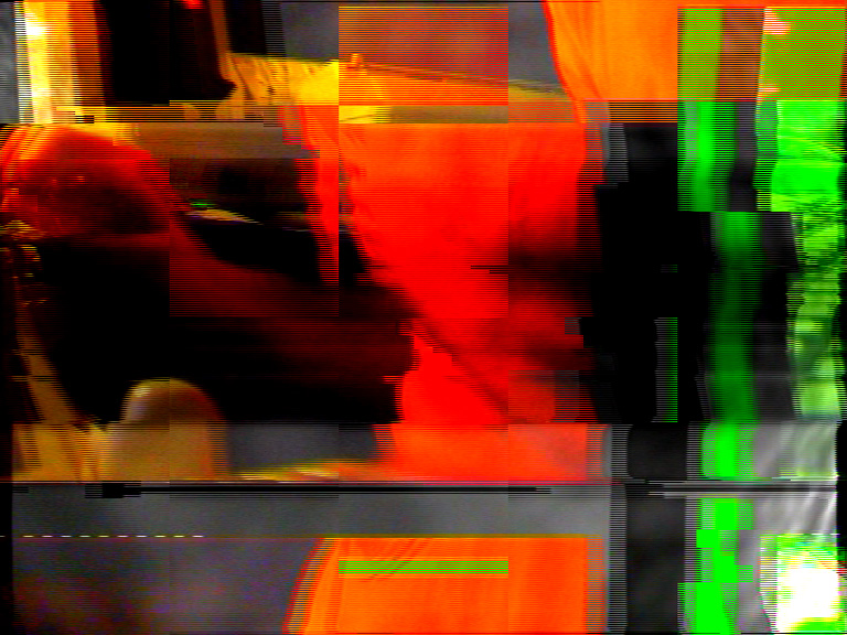 Video-still of the multimedia performance "LOL (laughing out loud)" by the art collective N3krozoft Ltd. Performed at plug.in, Basel, on October 11th 2004.